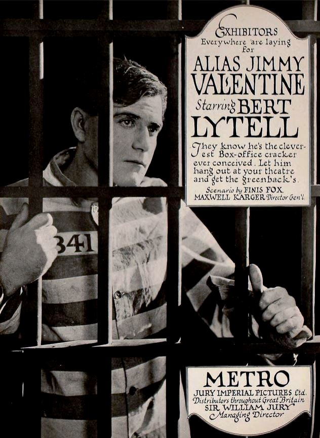 Ad for the American film Alias Jimmy Valentine (1920) with Bert Lytell, page 3477 of the April 17, 1920 Motion Picture News.